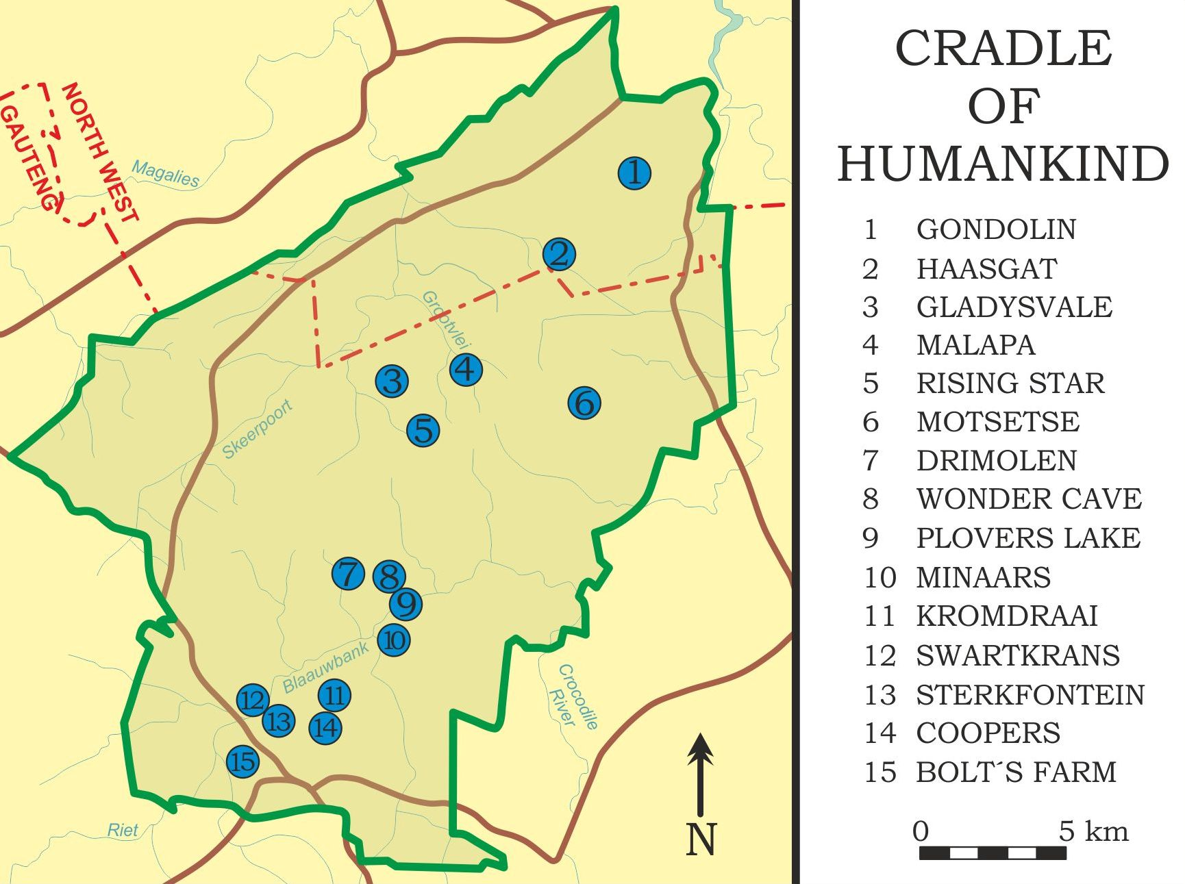 Cradle of Humankind map with most important caves; World heritage area, Gauteng province, South Africa